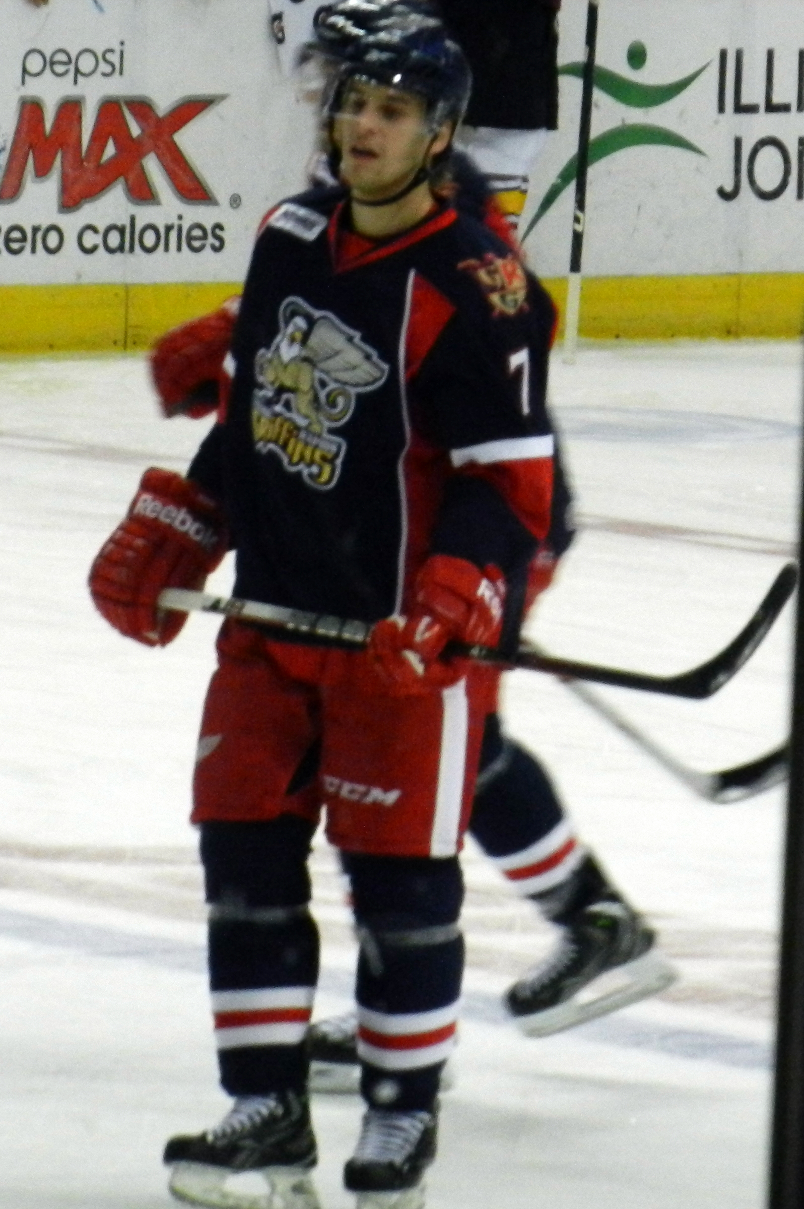 Brendan Smith playing for the American Hockey League's Grand Rapids Griffins